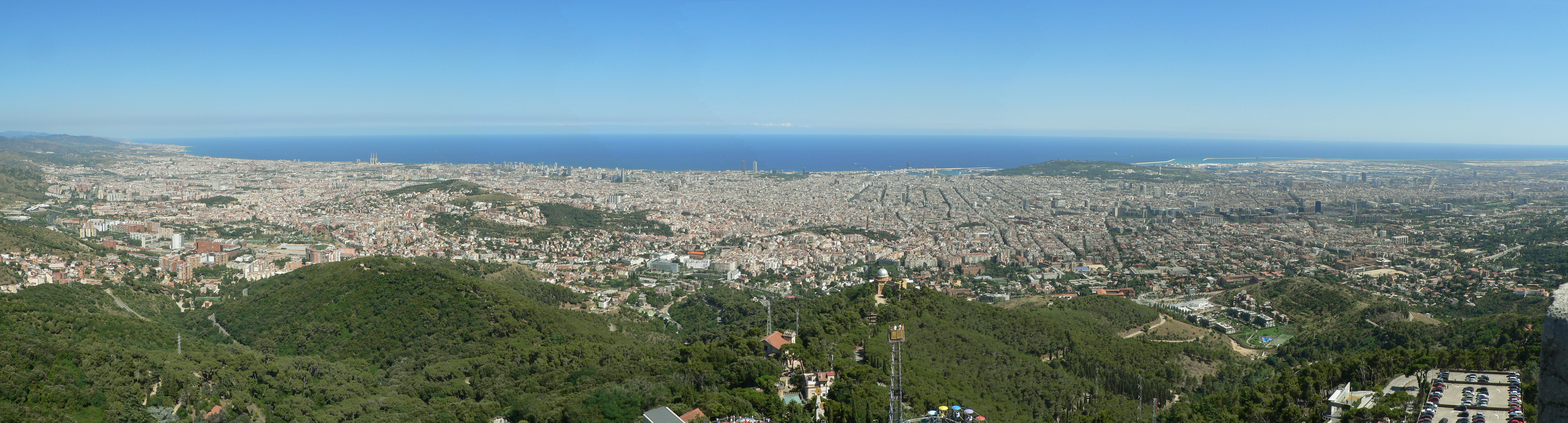 Barcelona. View from the Sacred Heart Church at Tibidabo